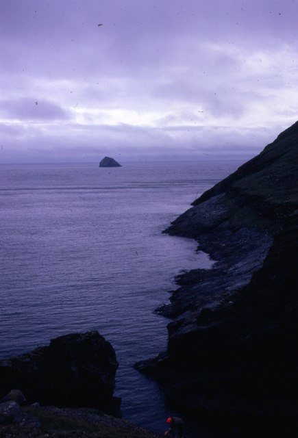 A dark day on Dun Looking across the Dun passage [Caolas an Duin], from the lower slopes of Ruabhal,to the steeply sloping northern rocks of Dun. Believe it or not, the occupier of the red hat is searching for fungi. Leibhinis is the island 4 km to the SE.